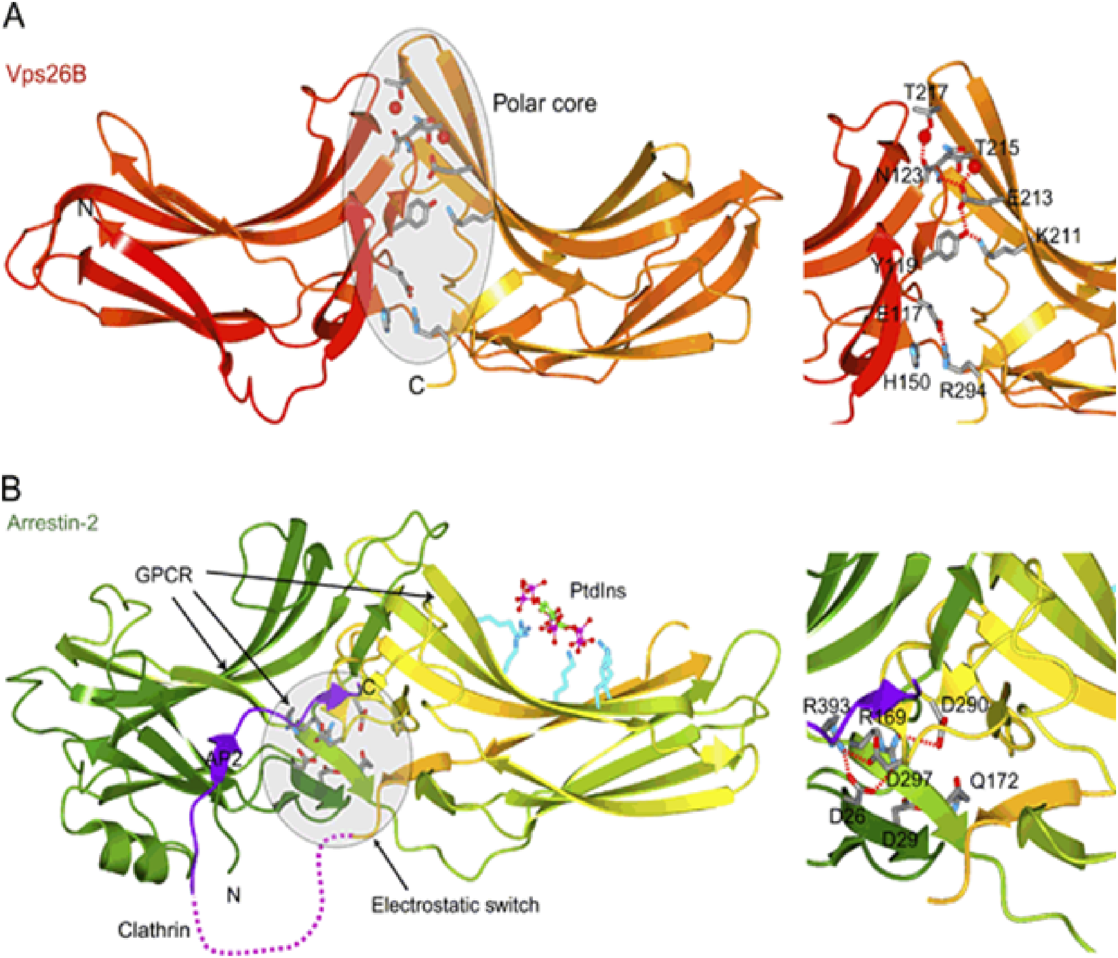 (A) The structure of Vps26B (Red to gold). The ‘polar core’ of Vps26B has a different side chain composition from arrestins (Grey shaded region). (B) The structure of arrestin-2 (Green to gold). The C-terminal tail of arrestins contains clathrin- and AP2-binding sequences (Purple). The arrestin side chains for GPCR binding and basic side chains involved in binding to phosphatidylinositol phospholipids are shown here, which are not present in Vps26B. Figure taken from journal article by Collins et al, 2008